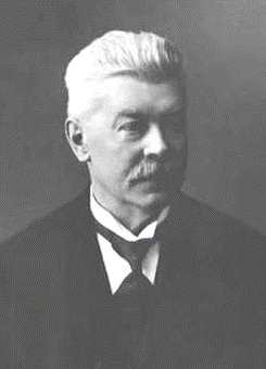 Trumpet player Thorvald Hansen (1847-1915)